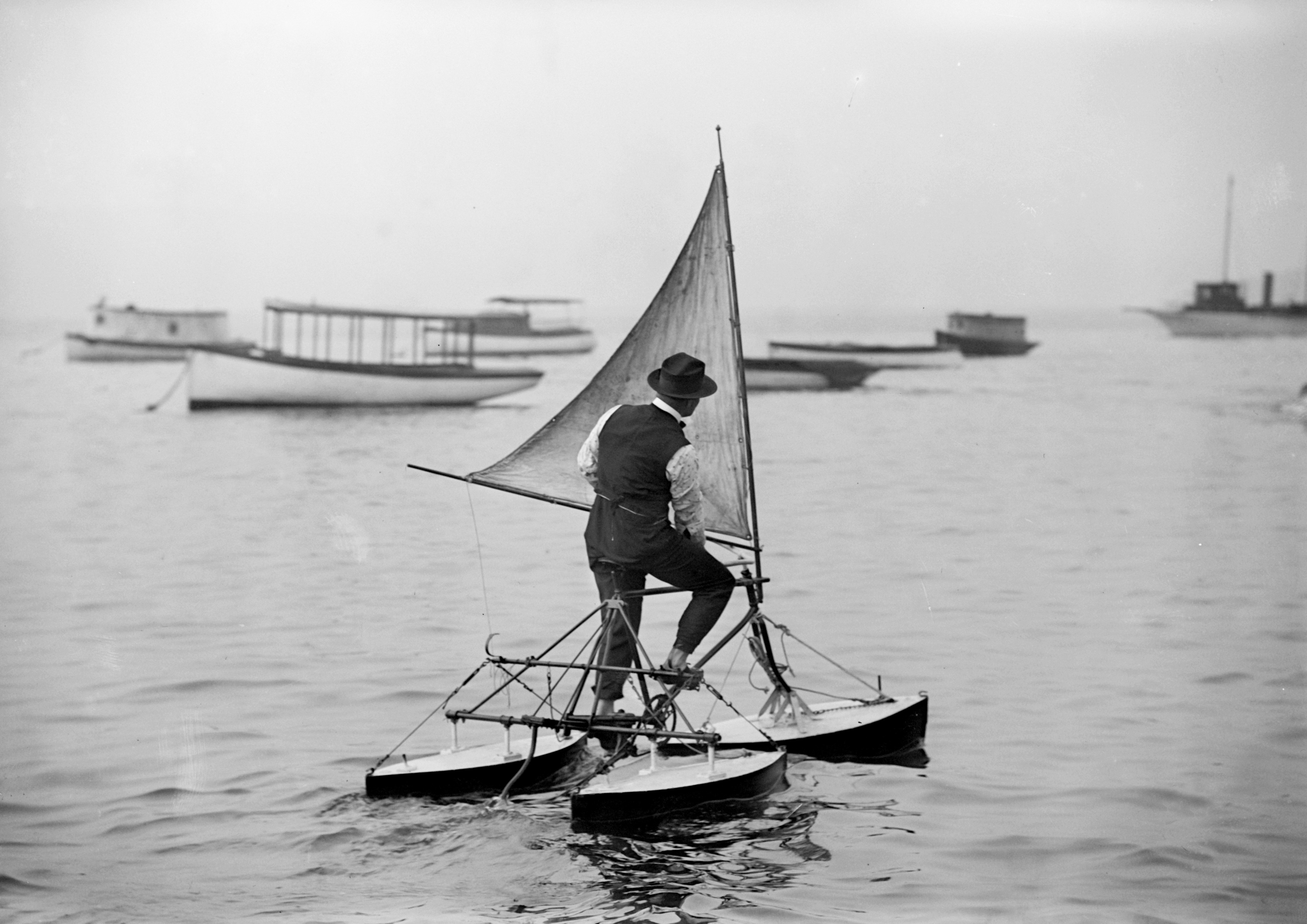 Man operating water tricycle, undated news picture, probably early 20th Century.